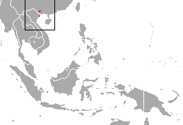 White-headed Langur (Trachypithecus poliocephalus) range